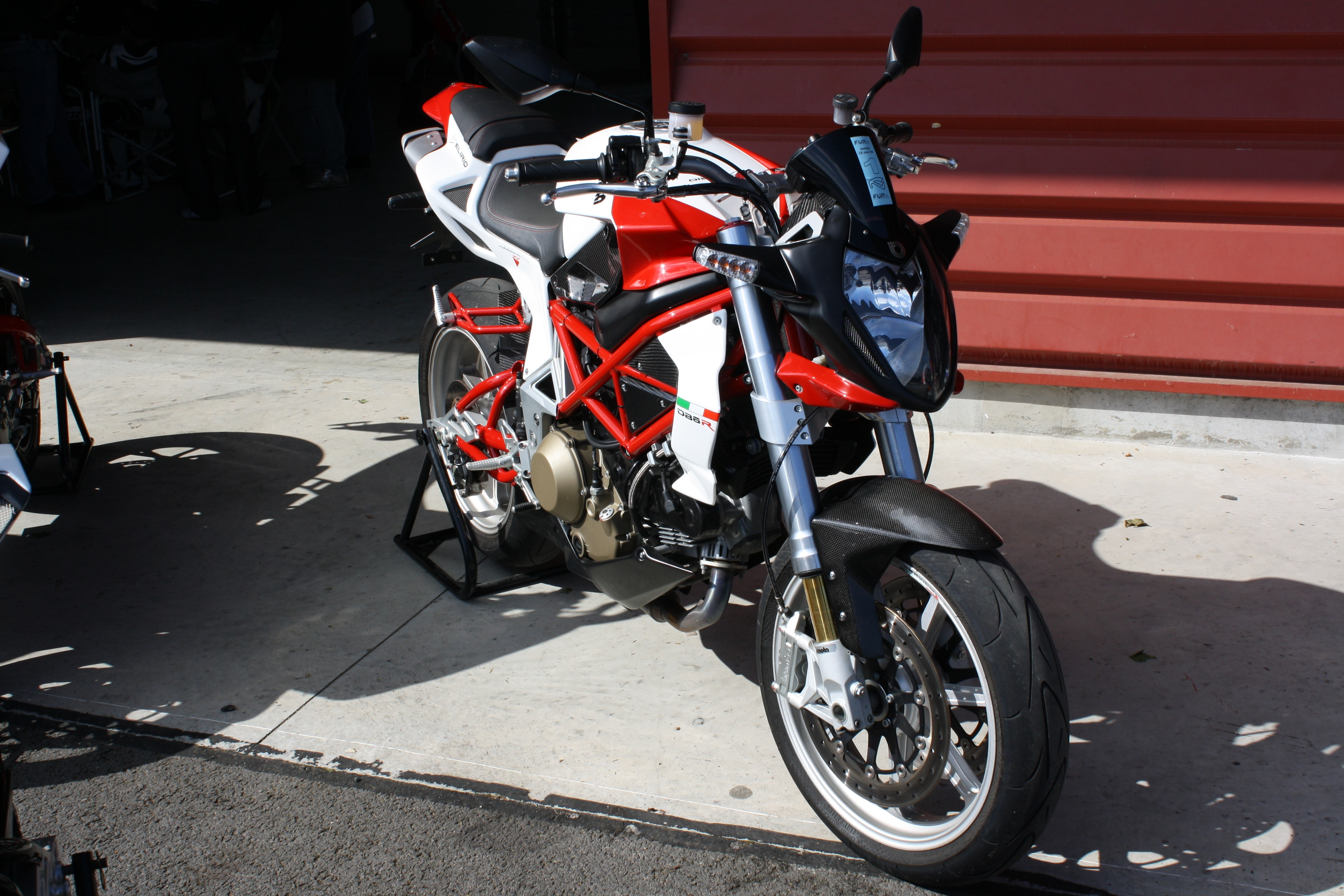 Bimota DB6R